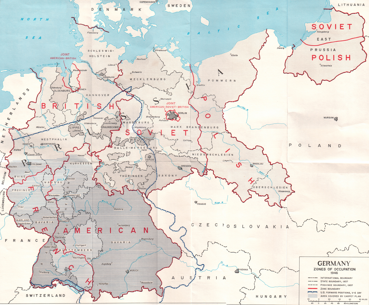 Map of the occupation zones of Germany in 1945. From Earl F. Ziemke, The U.S. Army in the Occupation of Germany, 1975. Library of Congress Catalog Card Number 75-619027